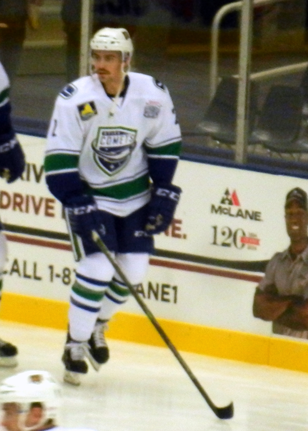 Travis Ehrhardt playing for the AHL's Utica Comets during the Frozen Dome Classic in 2014